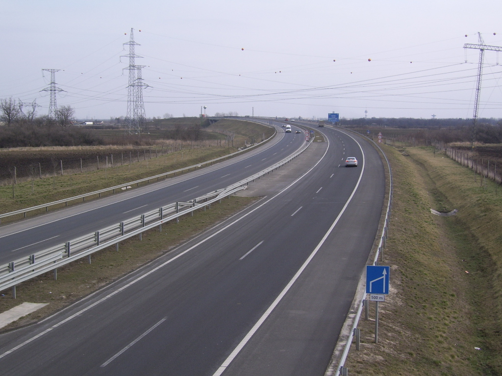 Motorway M43 in Hungary, near Szeged-North, Hungary